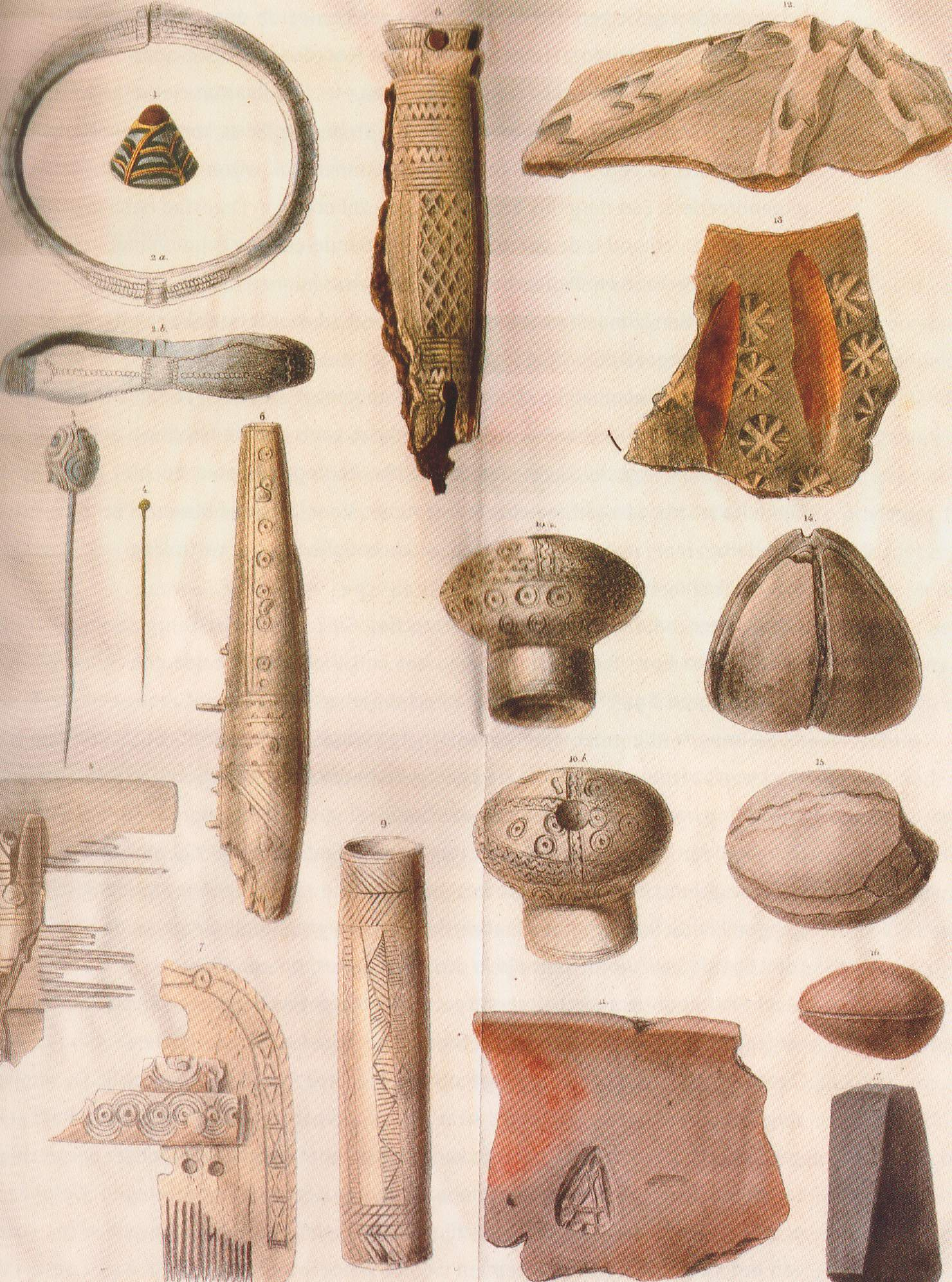 17 finds pictured after the first archeological excavation at Wijk bij Duurstede/ Dorestad.